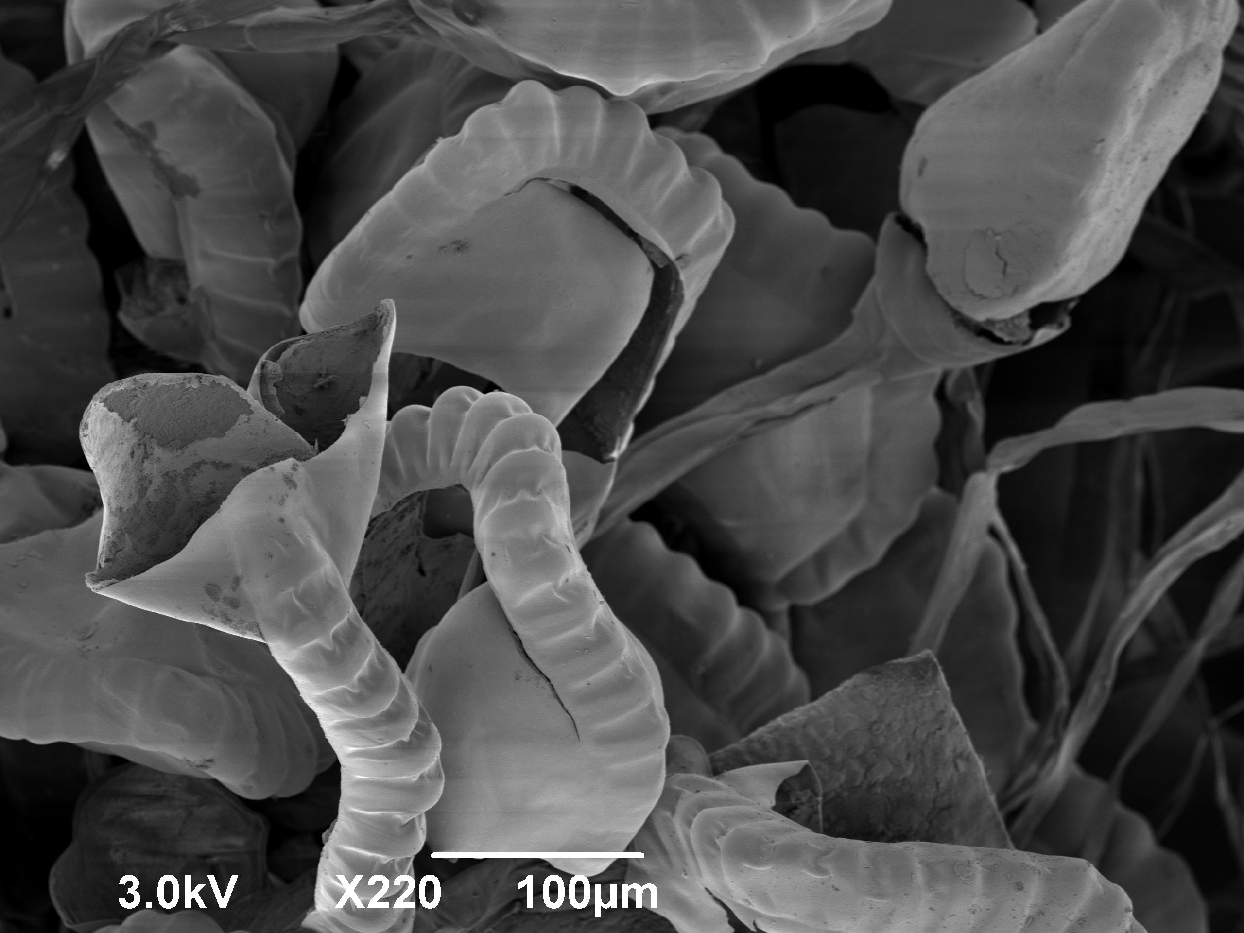 Scanning electron micrograph of fern sporangia in various stages of spore release.